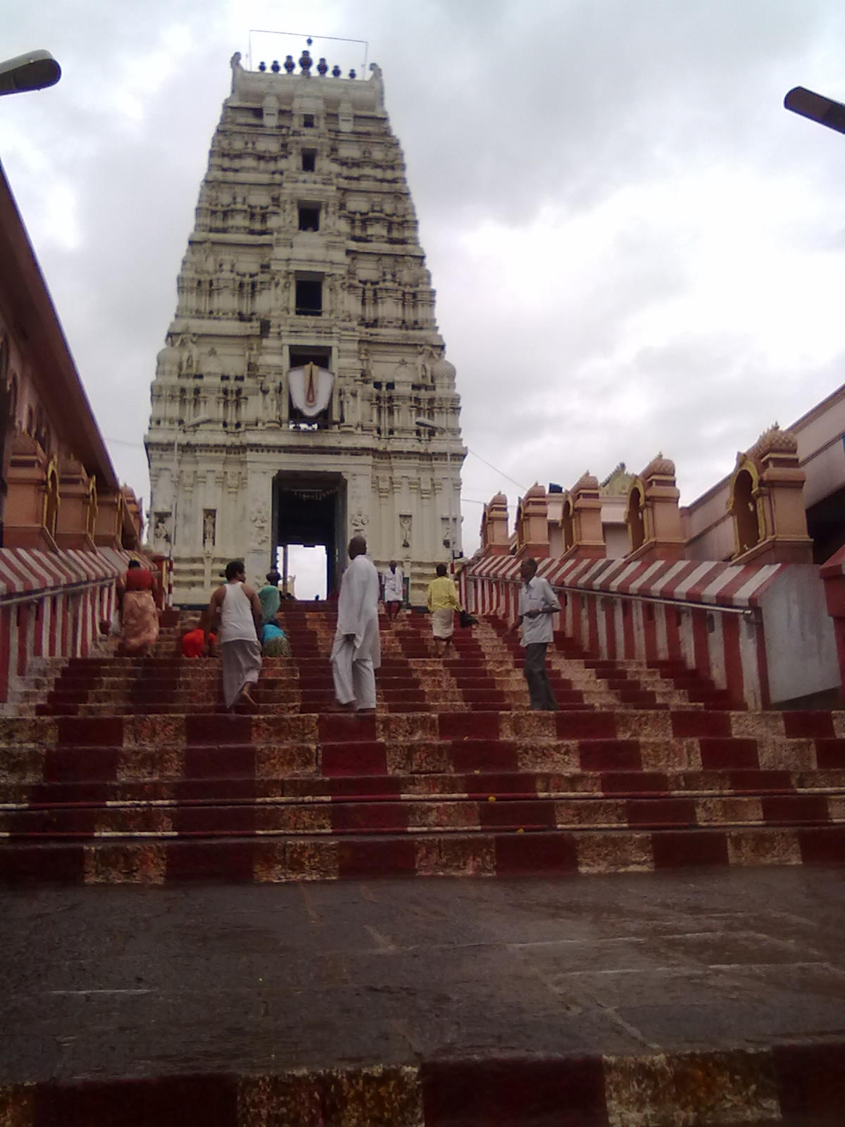 dwaraka tirumala entrance